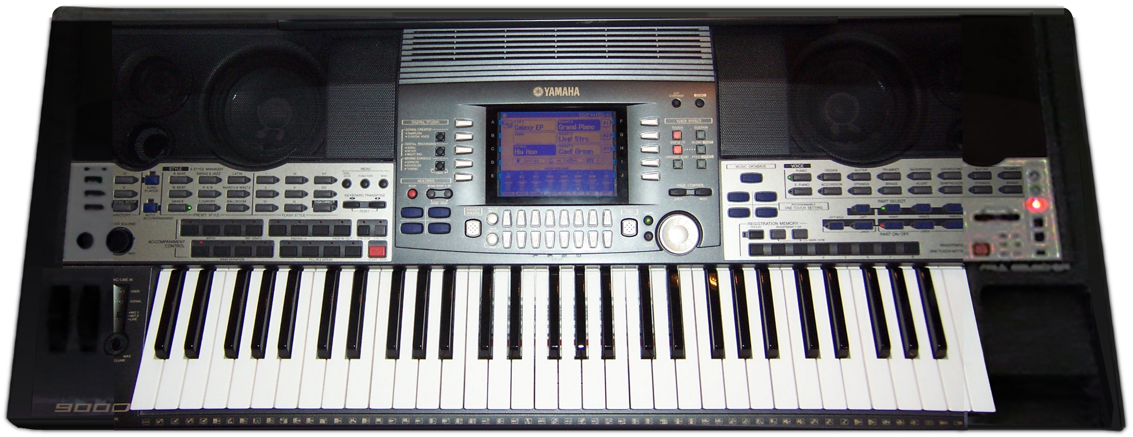 Yamaha PSR9000 Arranger Workstation